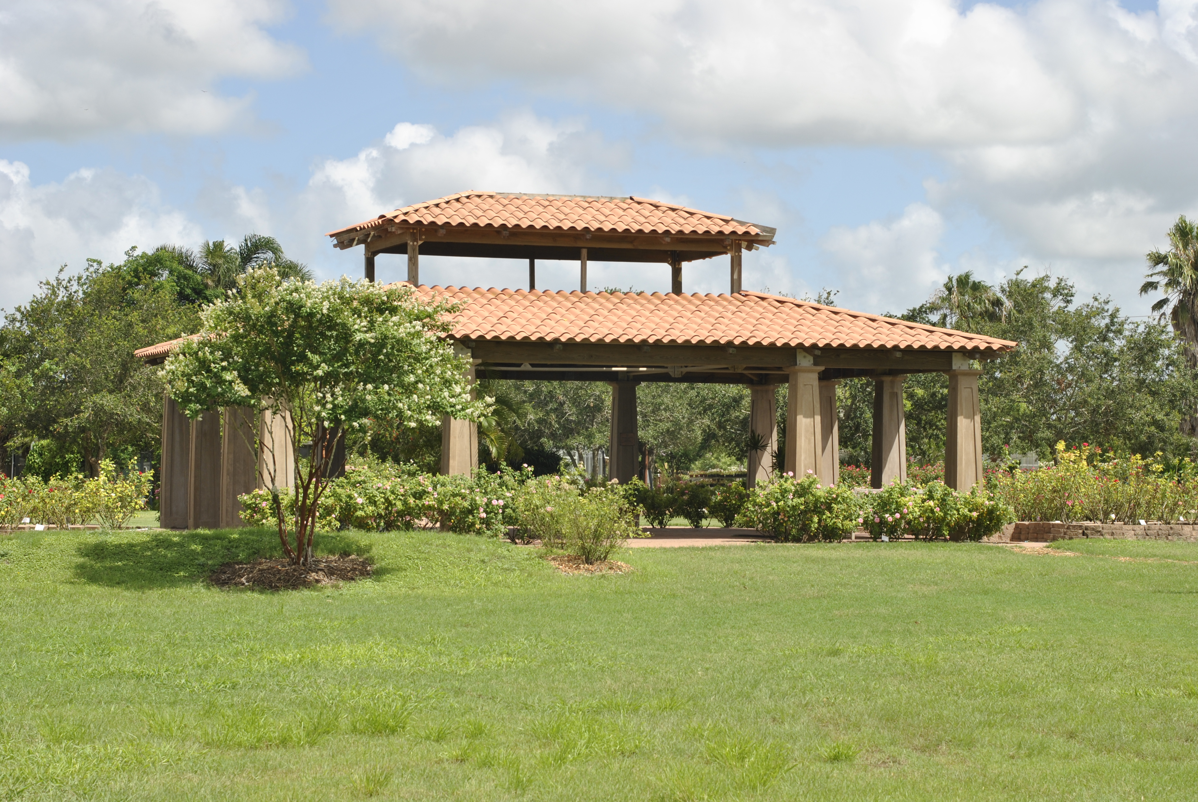 The Rose Garden Pavilion of the Corpus Christi Botanical Garden. On July 4, 2010.